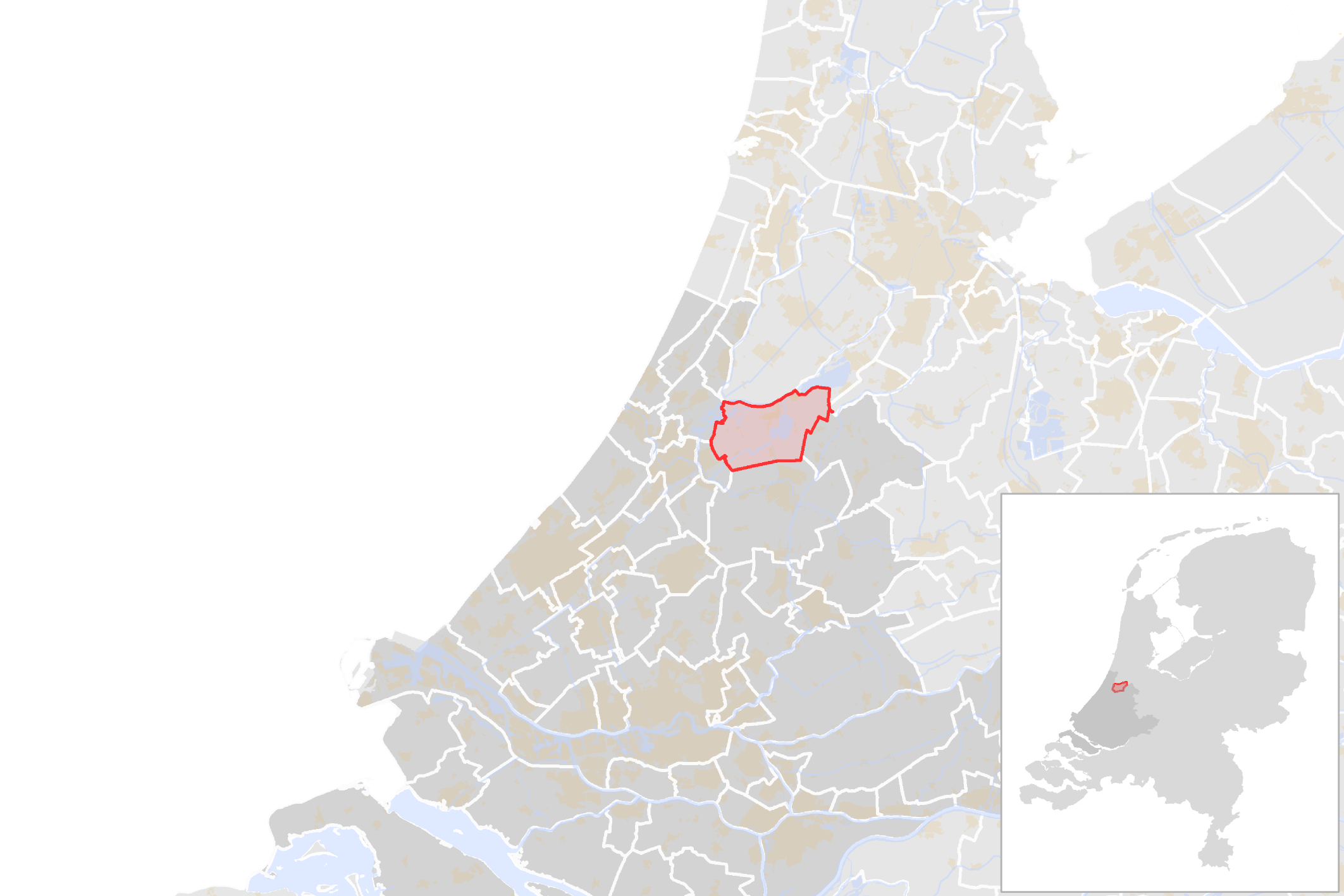 Locator map showing municipality boundary of one of the 390 Dutch municipalities (as of 2016)